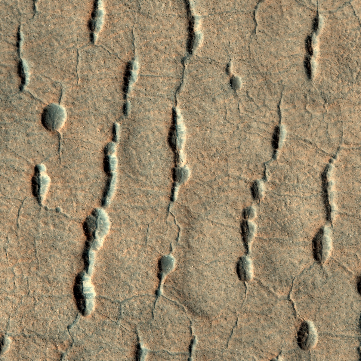 Chains of pit craters on Mars, in western Utopia Planitia (centered at 44.650°N, 84.955°E). Taken by camera HiRISE on Mars Reconnaissance Orbiter. Width of the image is about 550 m (measured in JMARS). North is up, Sun is about 32° above the horizon, height of spacecraft is 302 km.